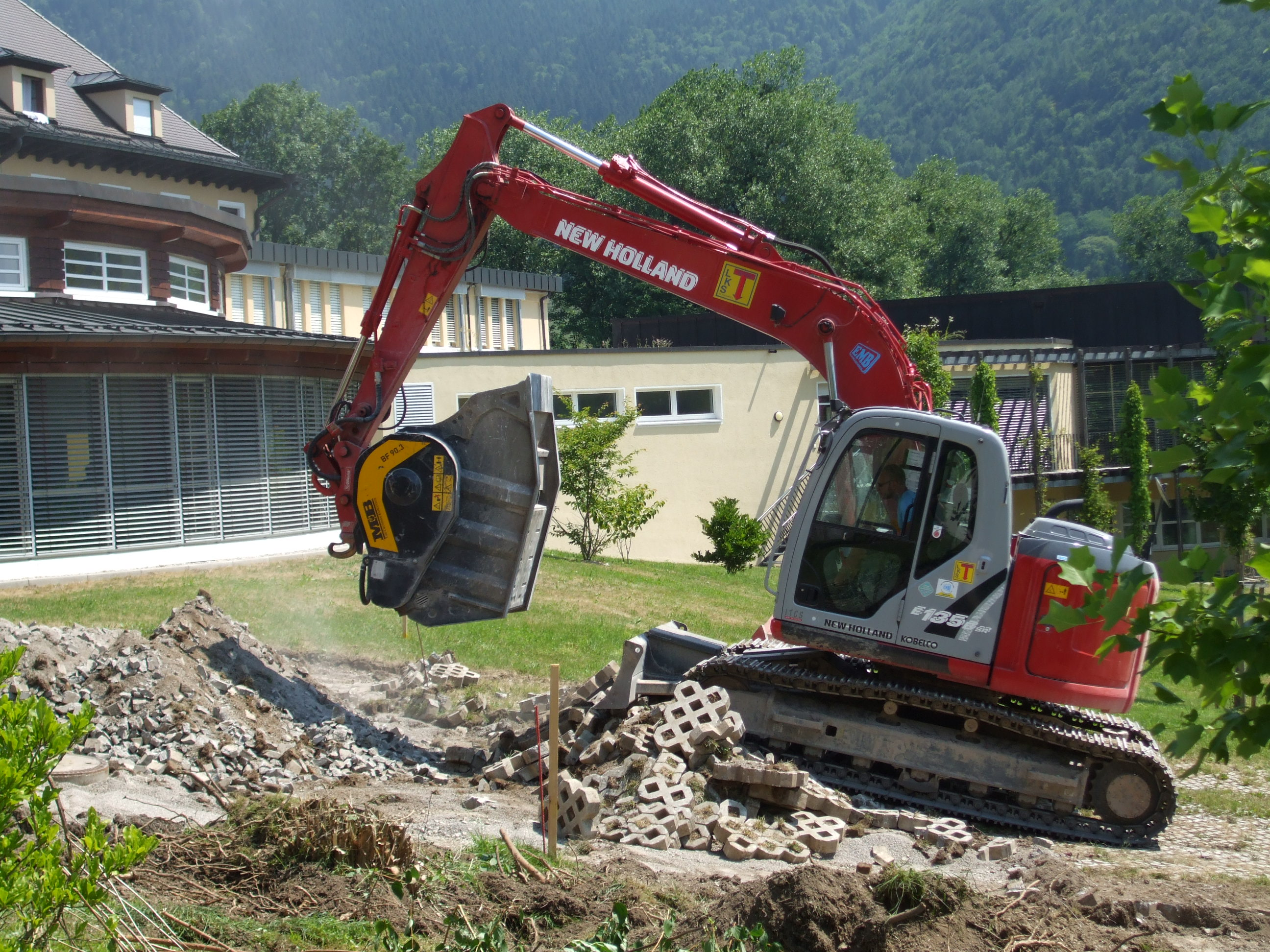 New Holland Kobelco E 135 B SR excavator